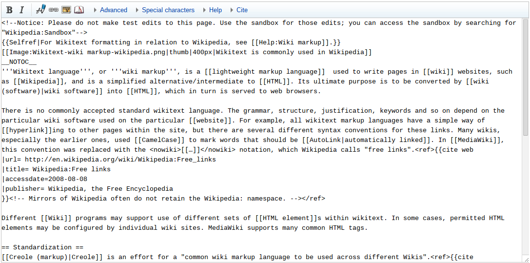 An example of Wiki markup, using the edit window of the English Wikipedia article on the topic. How recursive!